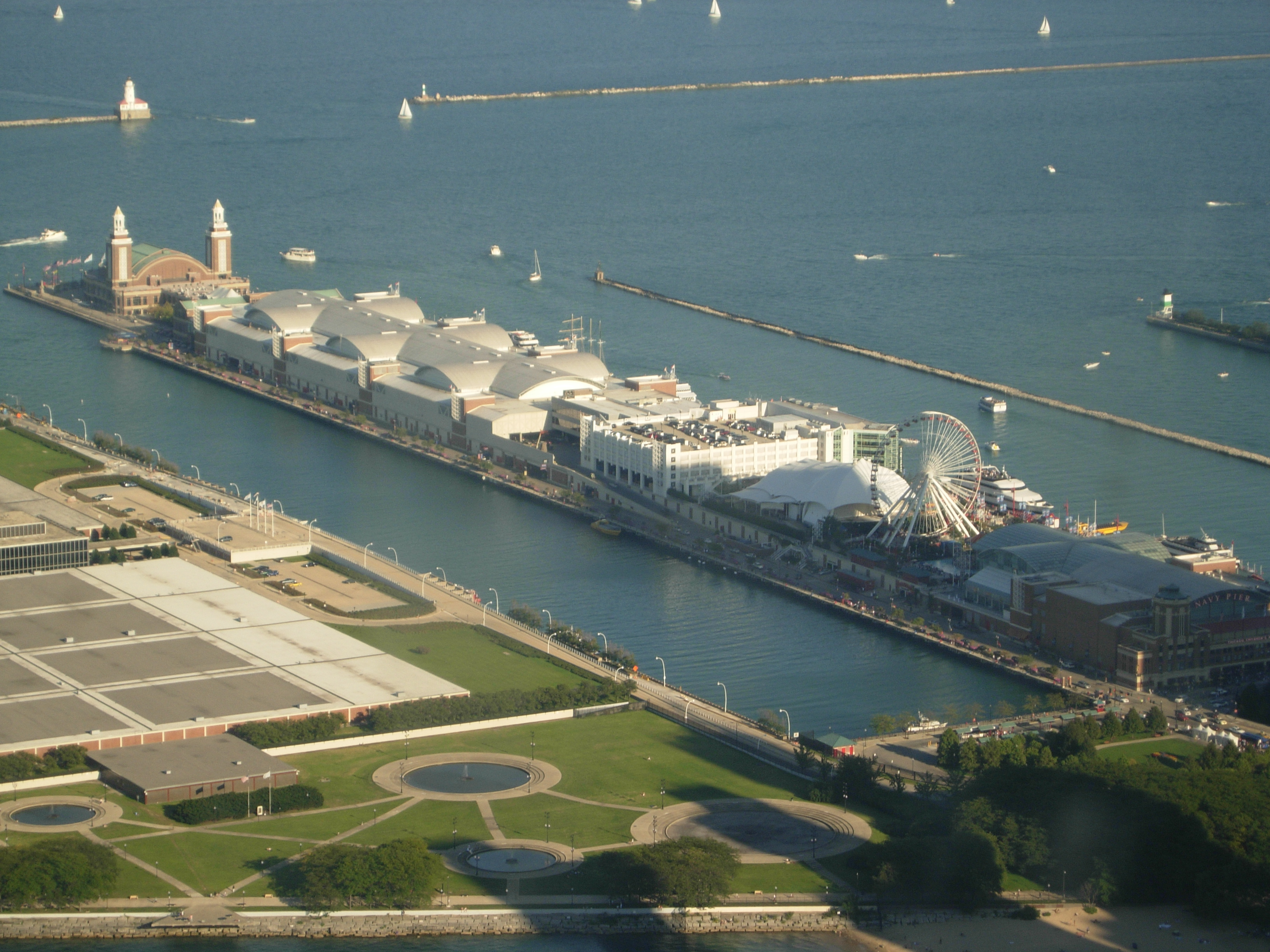 Navy Pier, Chicago.